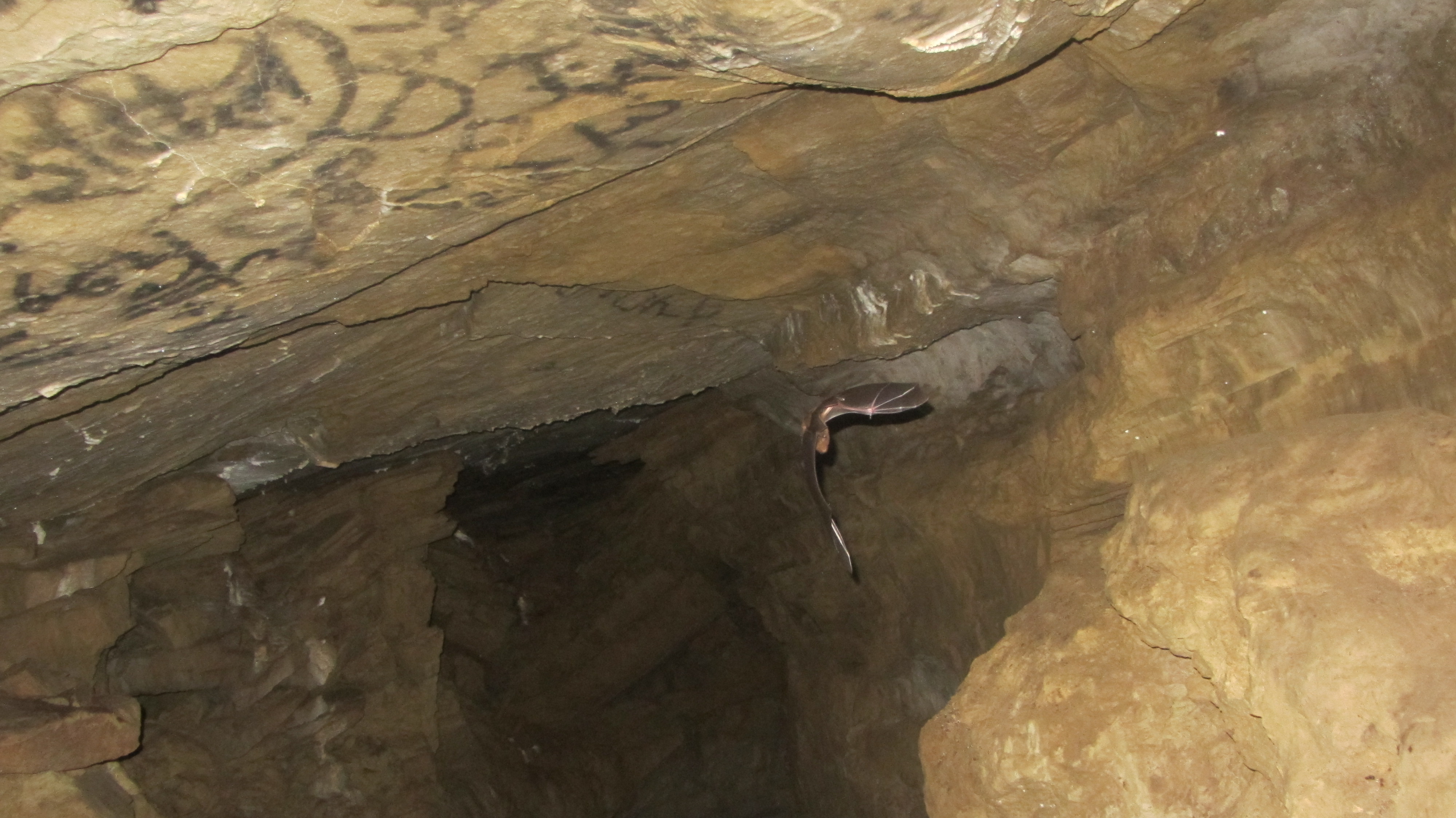 Bat flying inside Mahendra Cave Pokhara